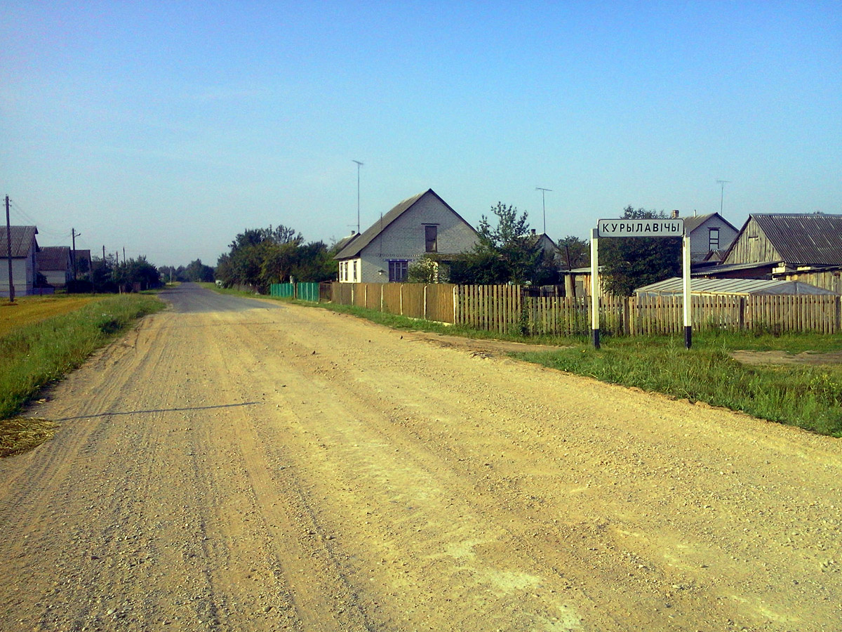 Kurilovichi village, Masty district, Hrodna province, Belarus